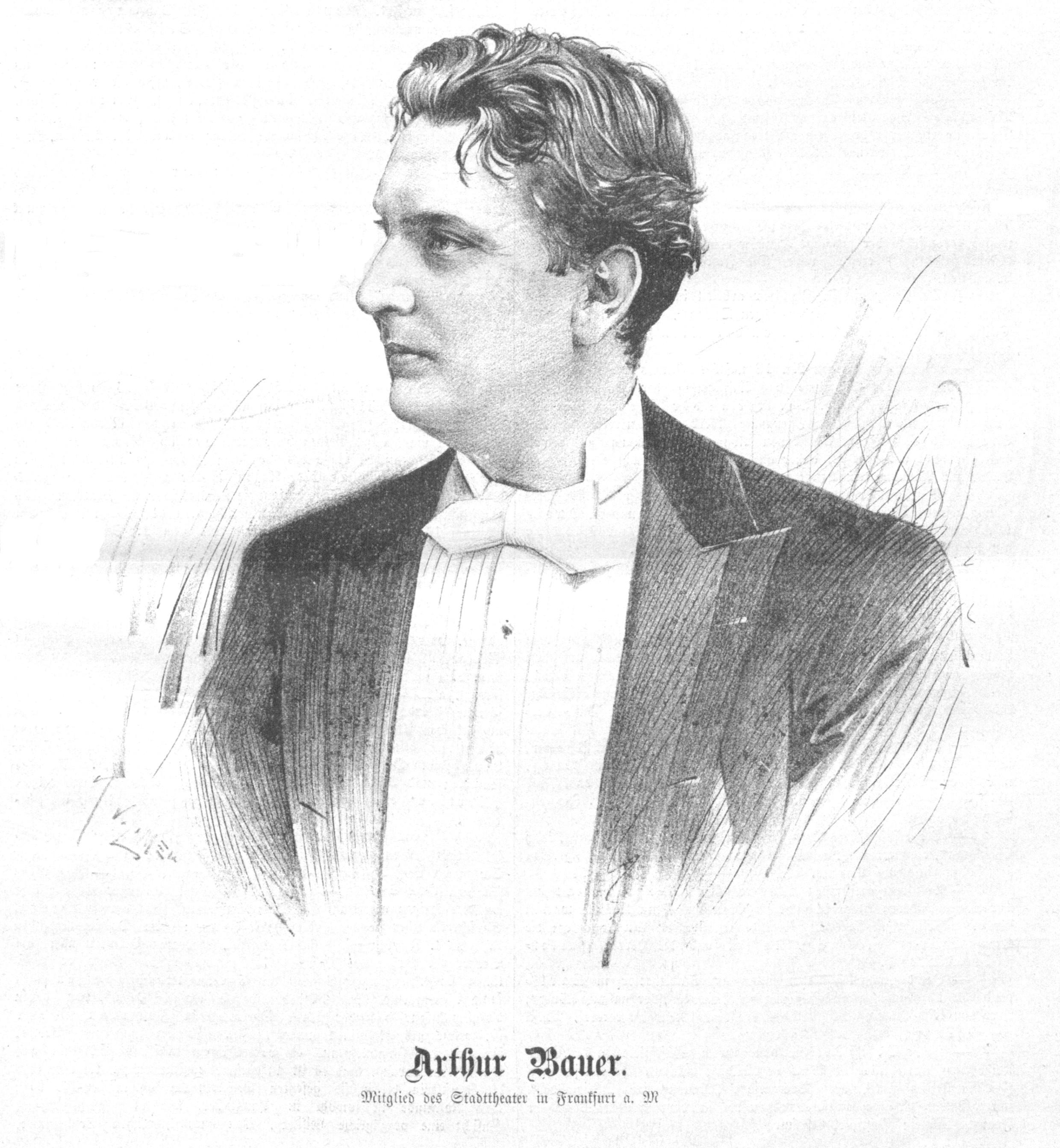 Portrait of Arthur Bauer (1858-1931), Austrian actor.